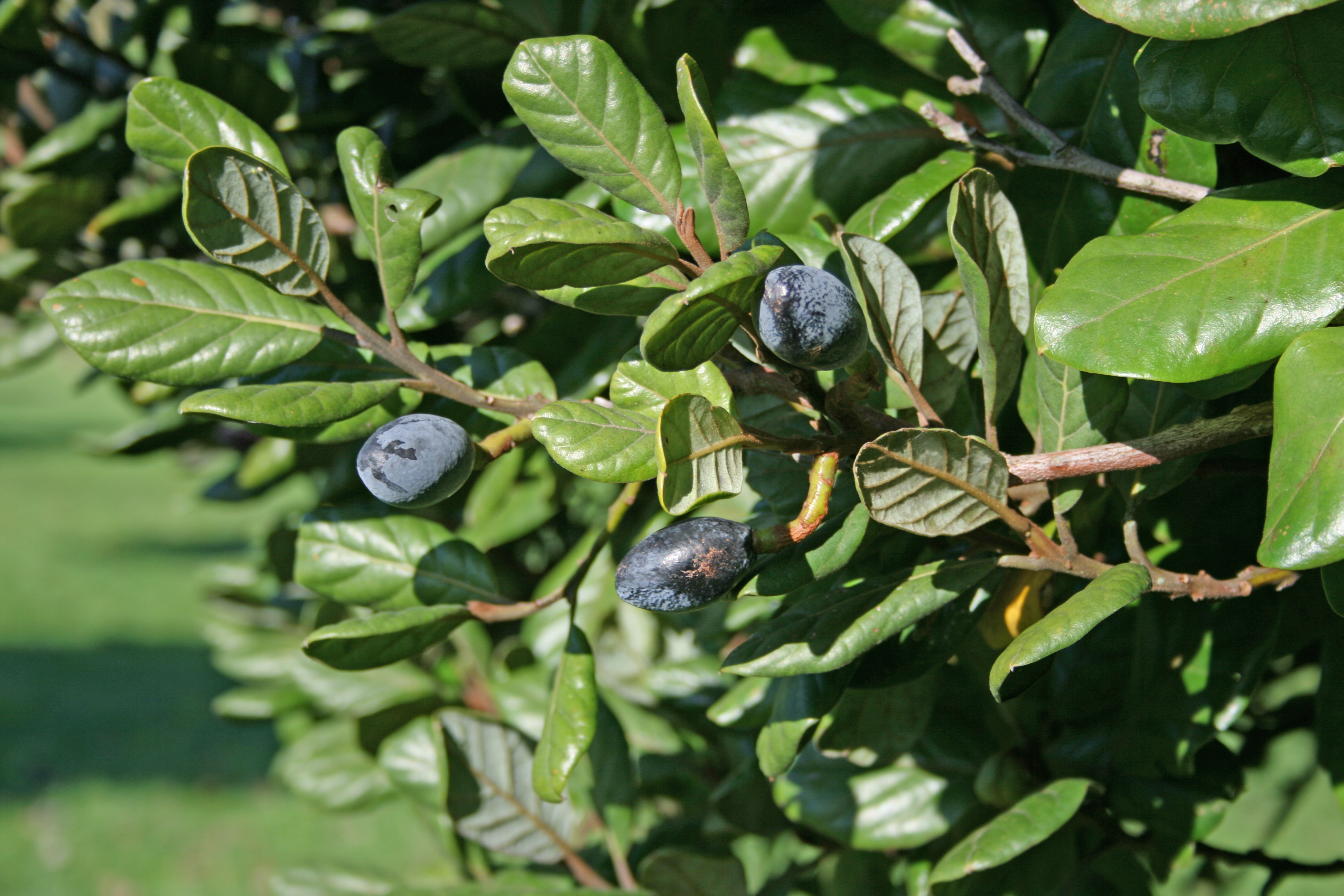 Foliage and ripe drupes of Beilschmiedia tarairi, Taraire, Lauraceae, New Zealand